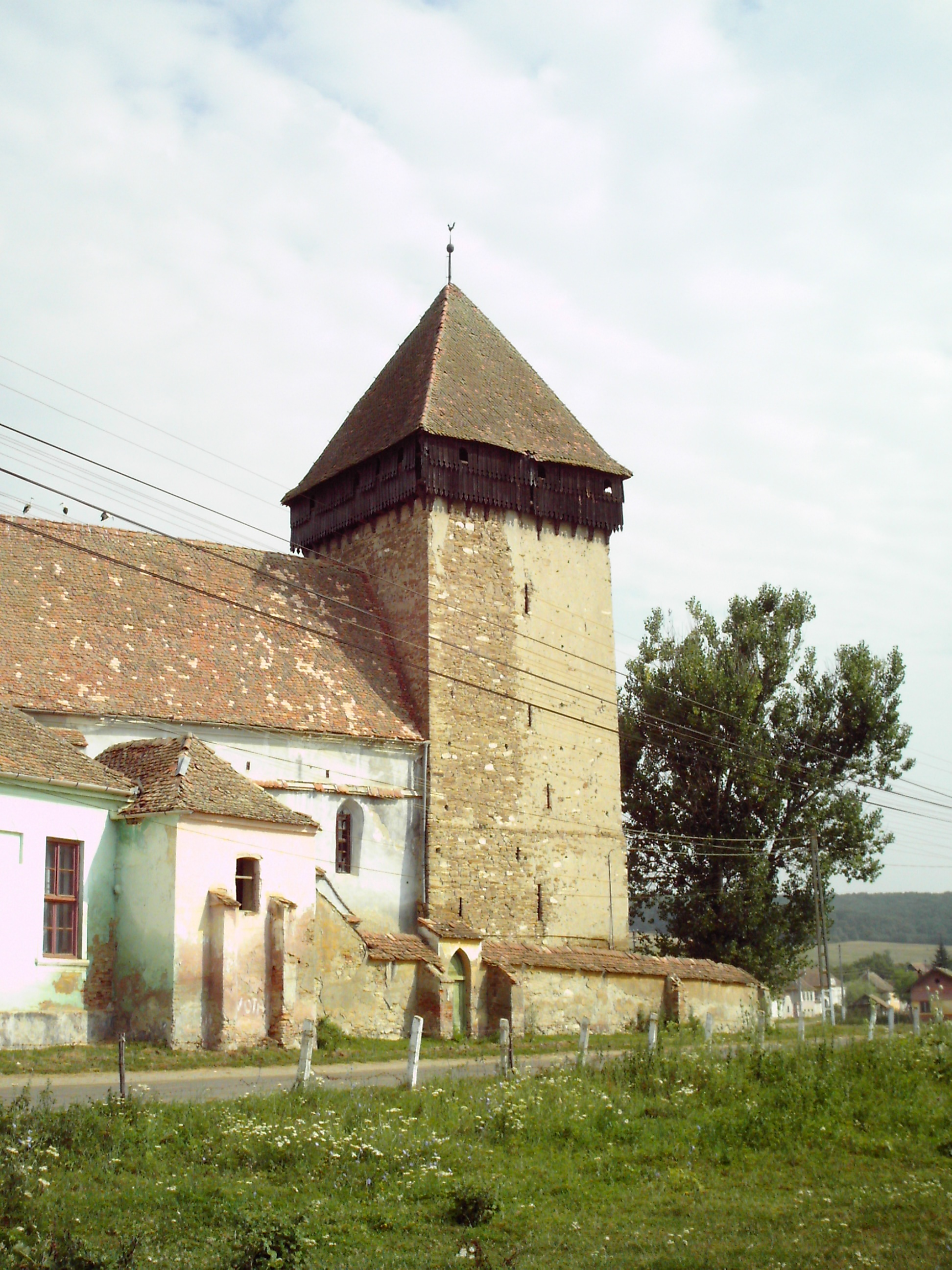 Saxon Church in Netus, Transylvania, Romania; fortified bell tower.